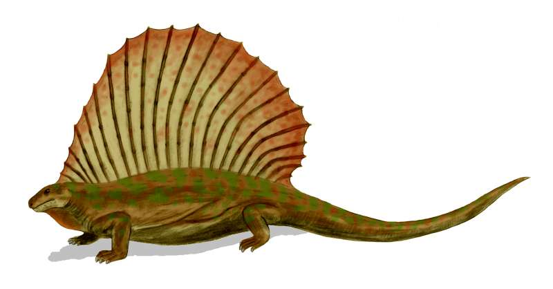 Edaphosaurus , a pelycosaur from the Early Permian of Texas, pencil drawing and digital coloring